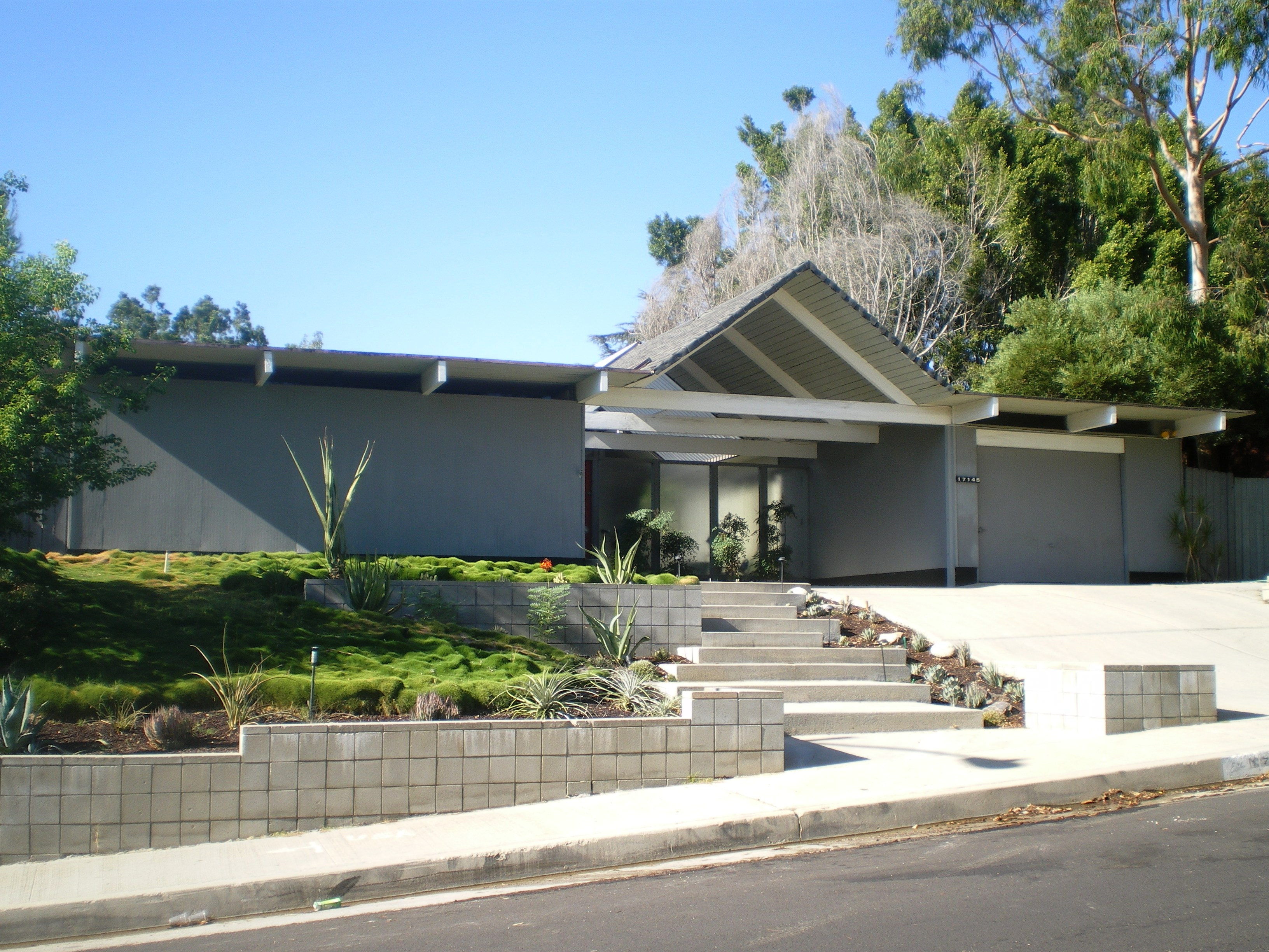 Modernist Eichler Homes — the Foster Residence, in the northern San Fernando Valley. A Los Angeles Historic-Cultural Monument located at 17145 West Nanette St., Granada Hills, Los Angeles, California